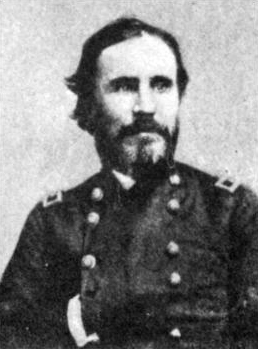 William Harrow, Union General, from